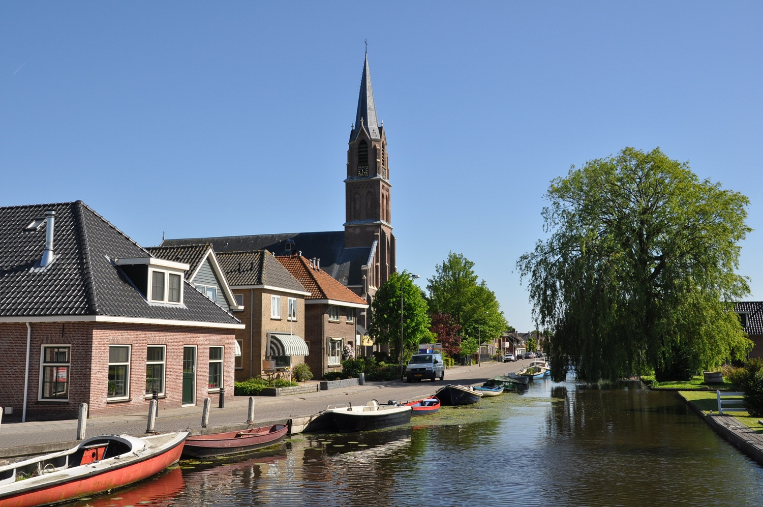 The village of Rijpwetering, on the canal of the same name (Municipality Kaag en Braassem, Province South Holland, Netherlands).